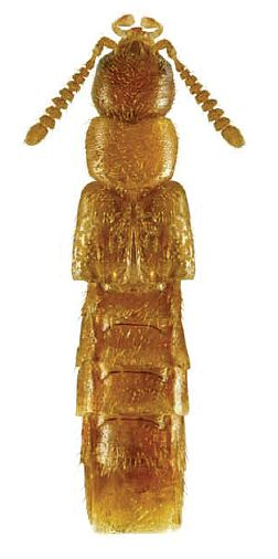 Holotype of Alisalia delicata.